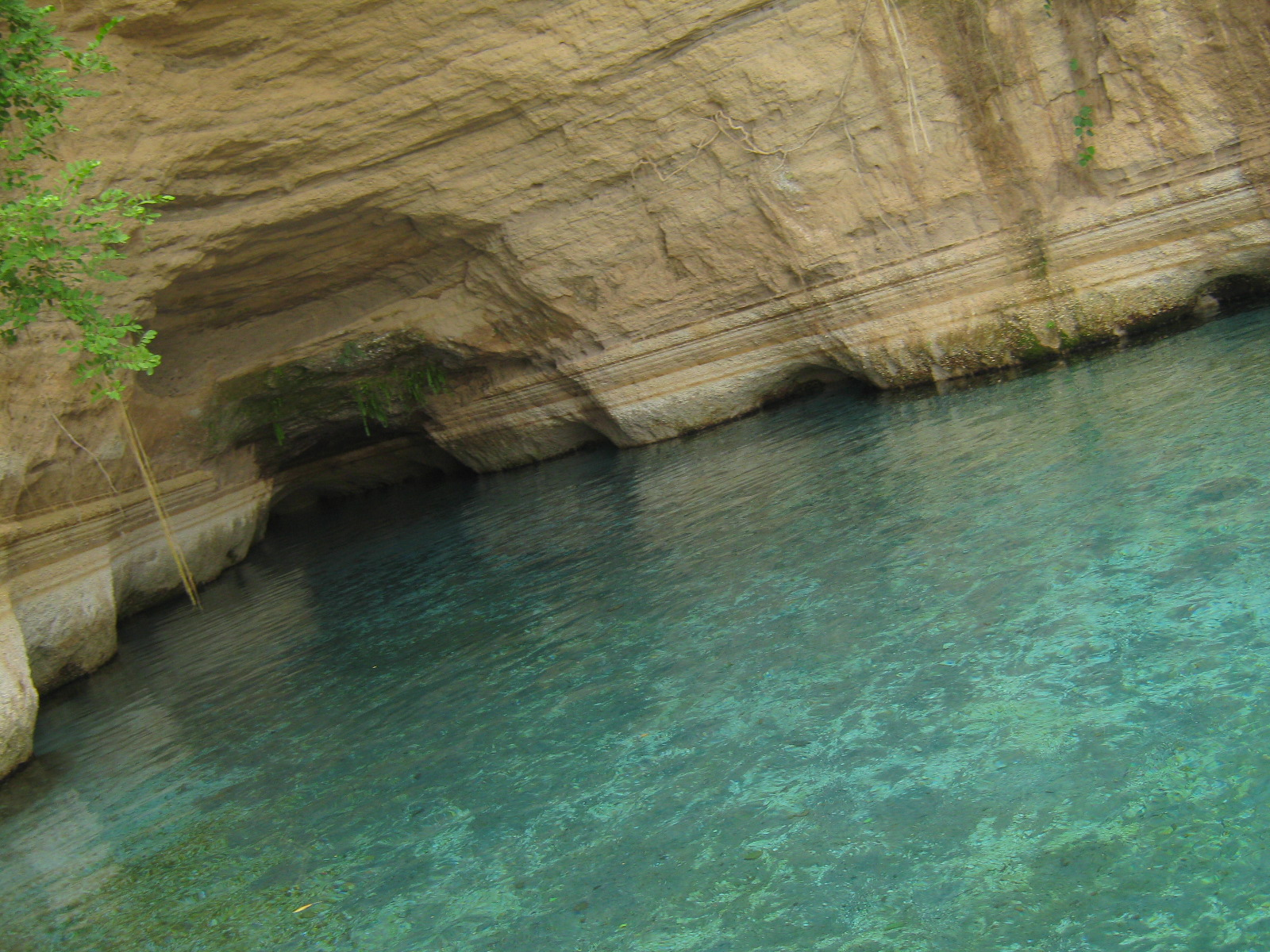 Moncagua is located near San Miguel, south-east of El Salvador